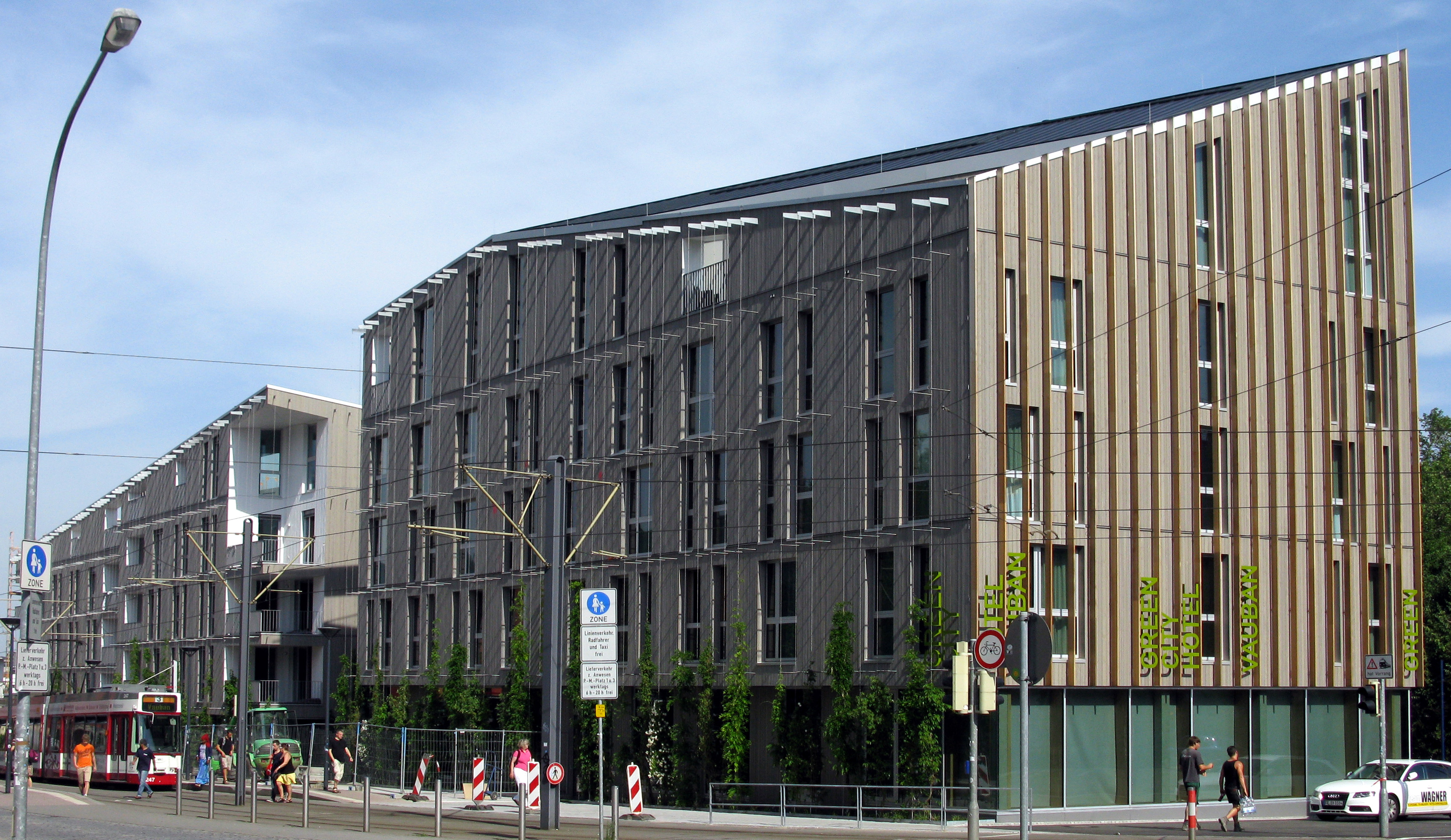 Green City Hotel in Freiburg-Vauban